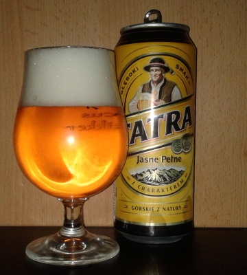 Tatra Jasne Pełne (.50 liter can + unrelated glass), found and drank in the Netherlands